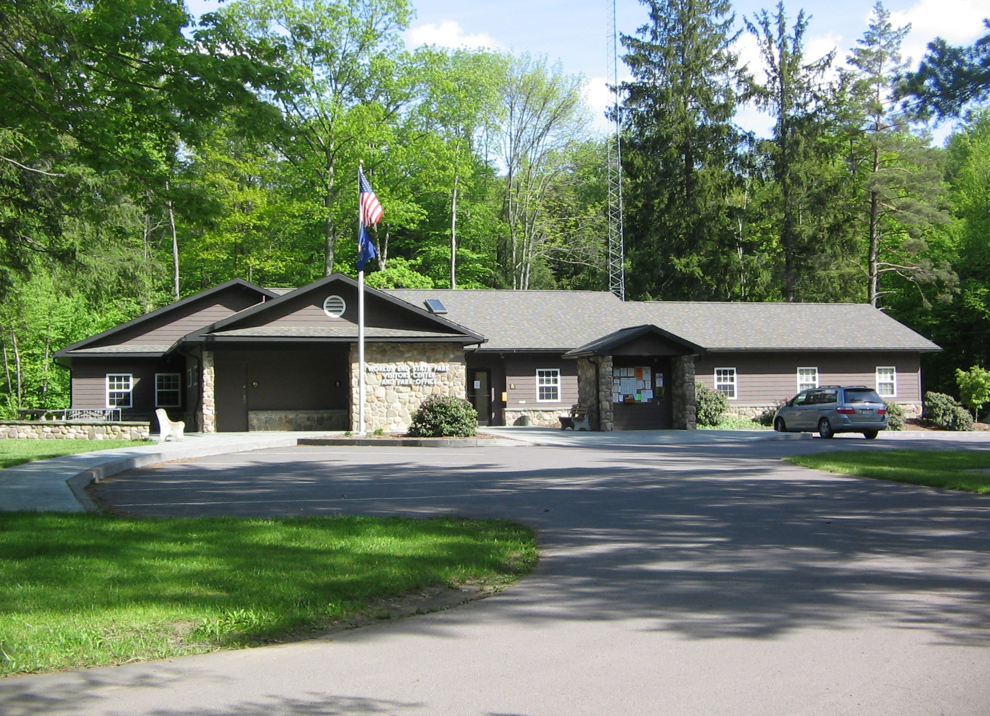 2002 Ranger Station in Worlds End State Park, near Forksville, Sullivan County, Pennsylvania, USA